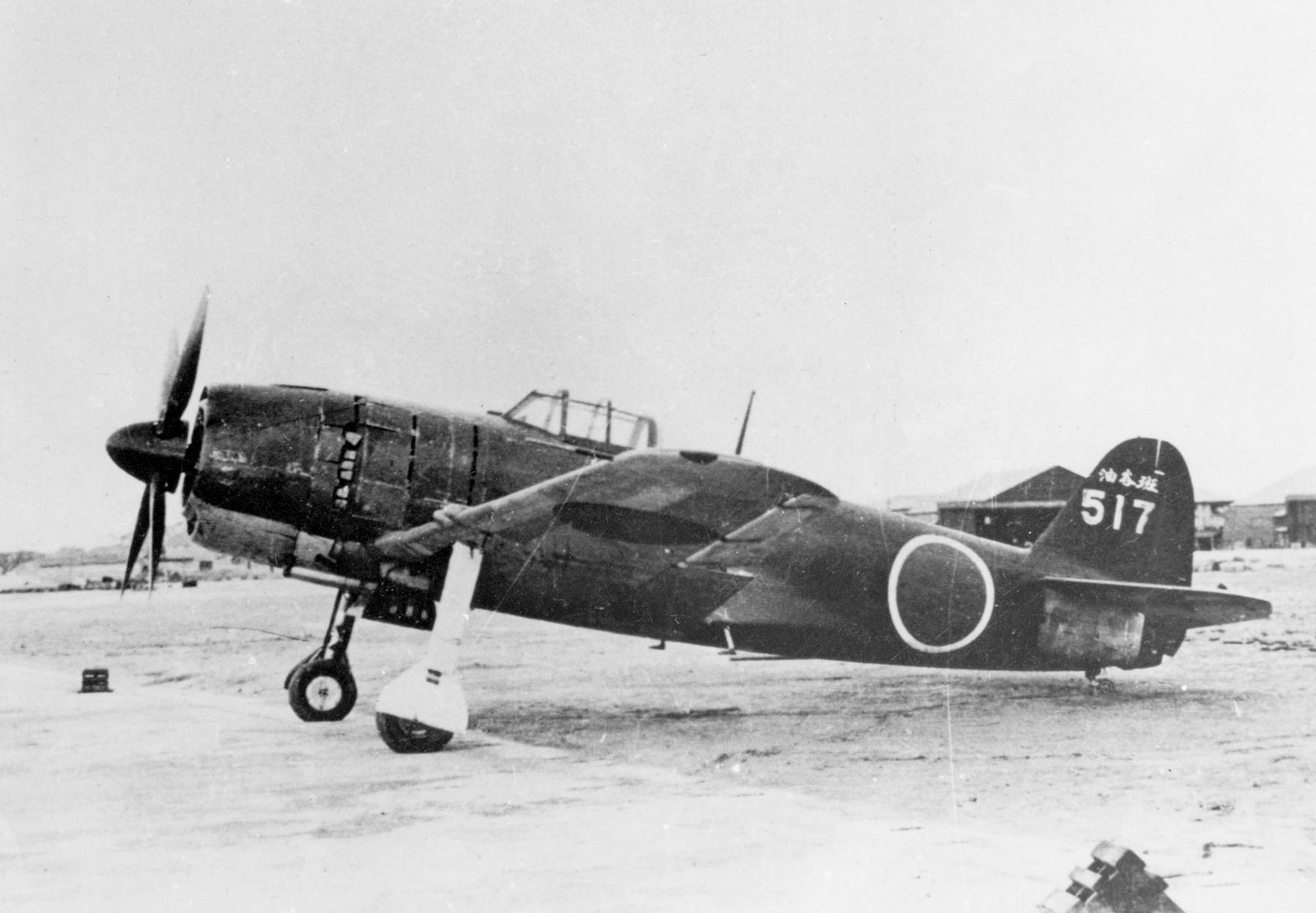 A Kawanishi N1K Shiden, allied codename George (probably N1K4-J Shiden Kai Model 32 - only two prototypes were built).